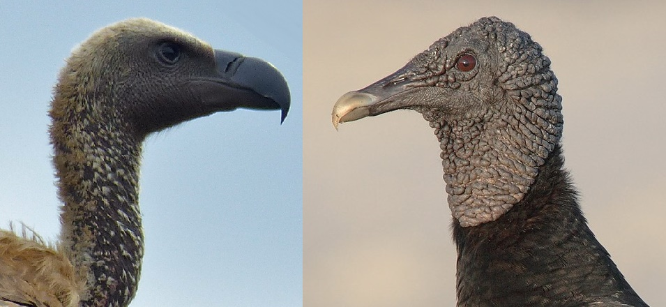 Old and New World vultures